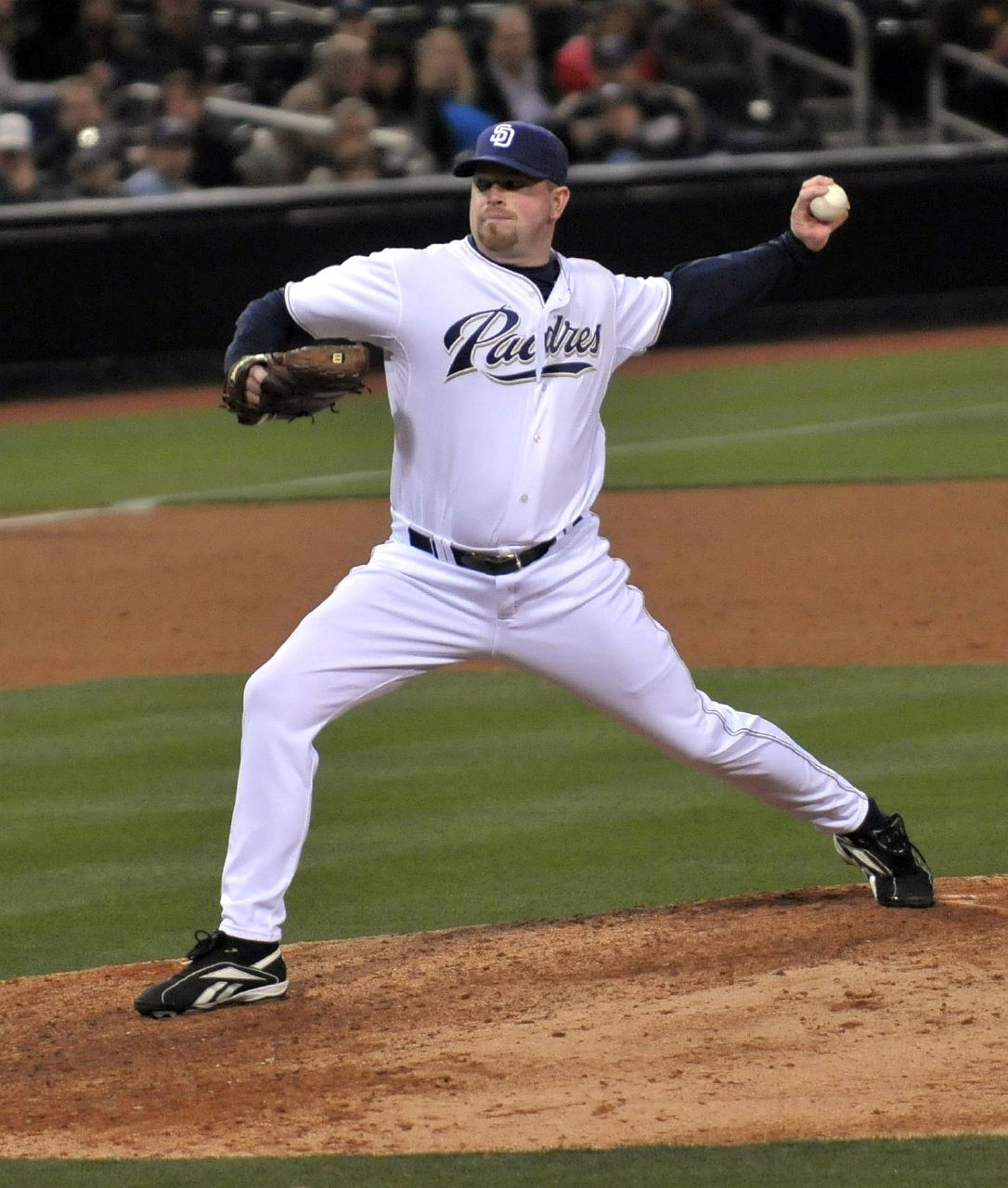 Glendon Rusch of the San Diego Padres on the mound in Petco.